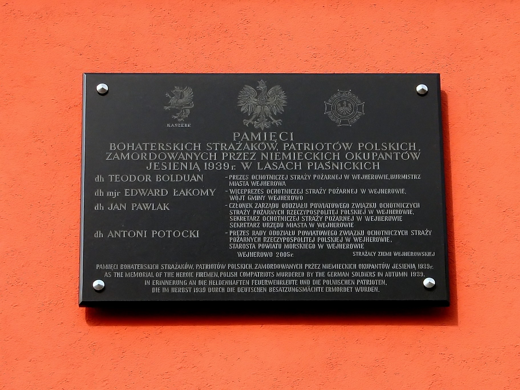 Plaque for Wejherowo firefighters which were killed by Nazi German occupant during Piaśnica massacre. Plaque on firestation in Wejherowo.